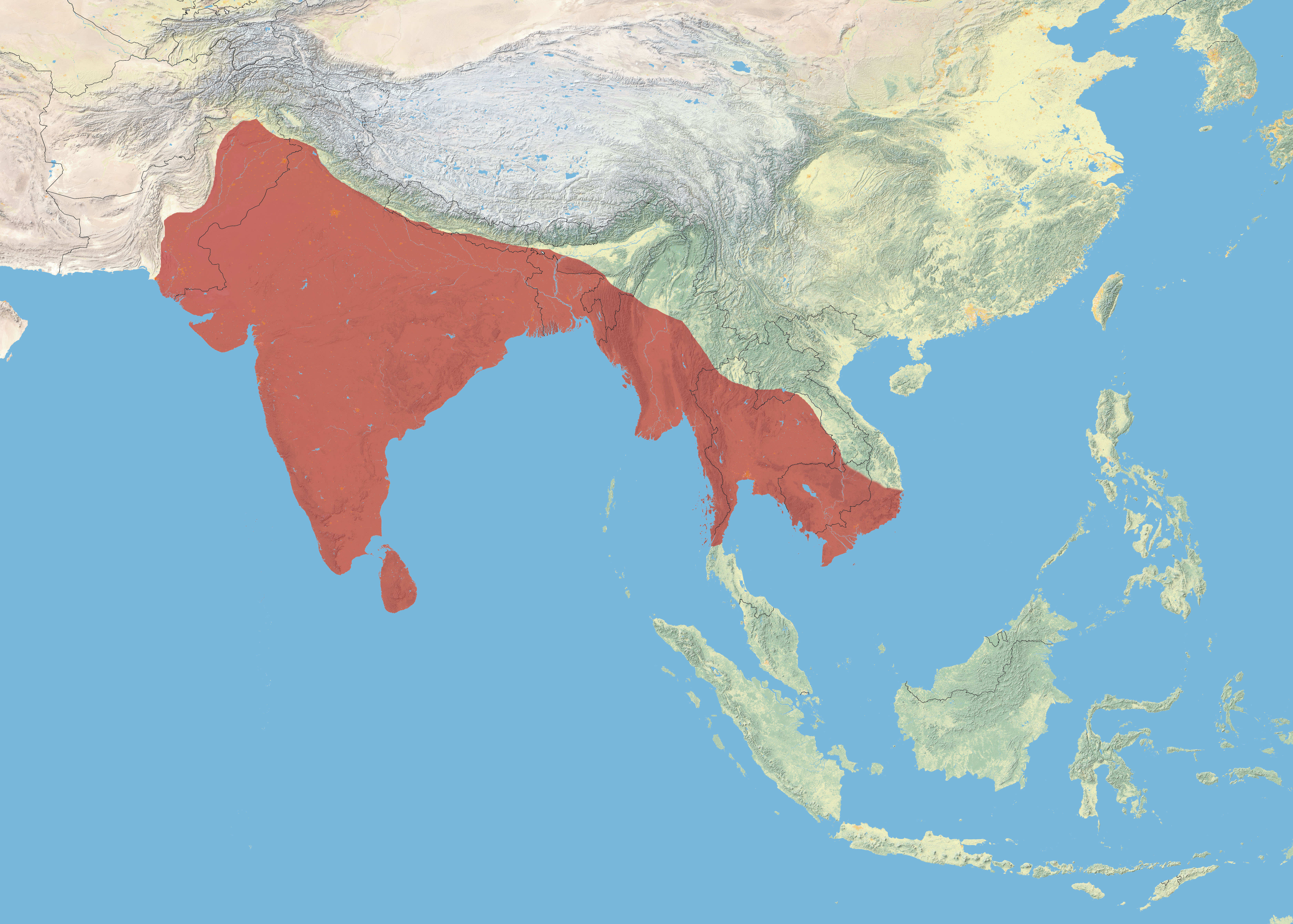 The Distribution of the Asian Openbill